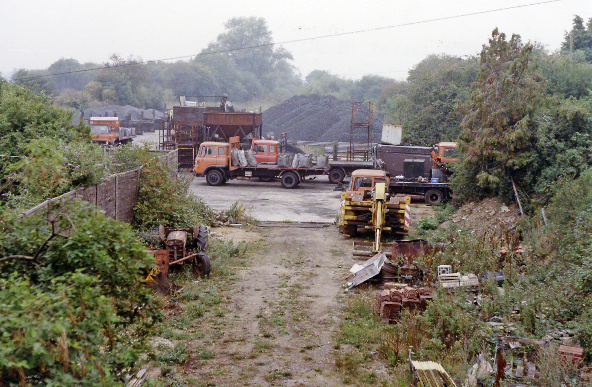 Site of Alvescot station, 1990. View SW, towards Fairford: ex-GWR Oxford - Witney - Fairford line. This station and the branch (from Wolvercote Junction) closed completely on 18/6/62 - except goods continued as far as Witney until 2/11/70. The site is clearly a contractor's yard.